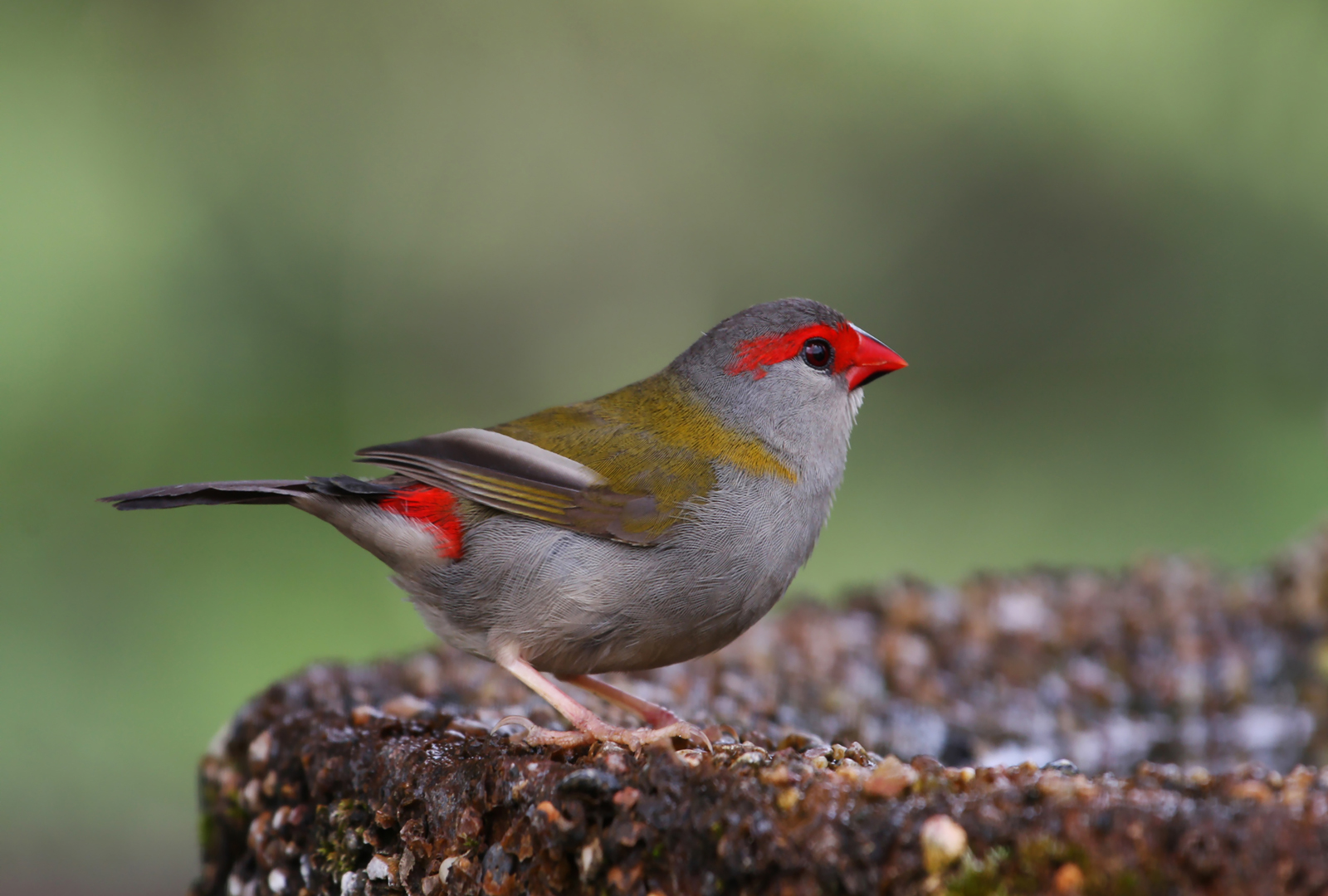 Red-browed Finch (Neochmia temporalis 11-12cm)